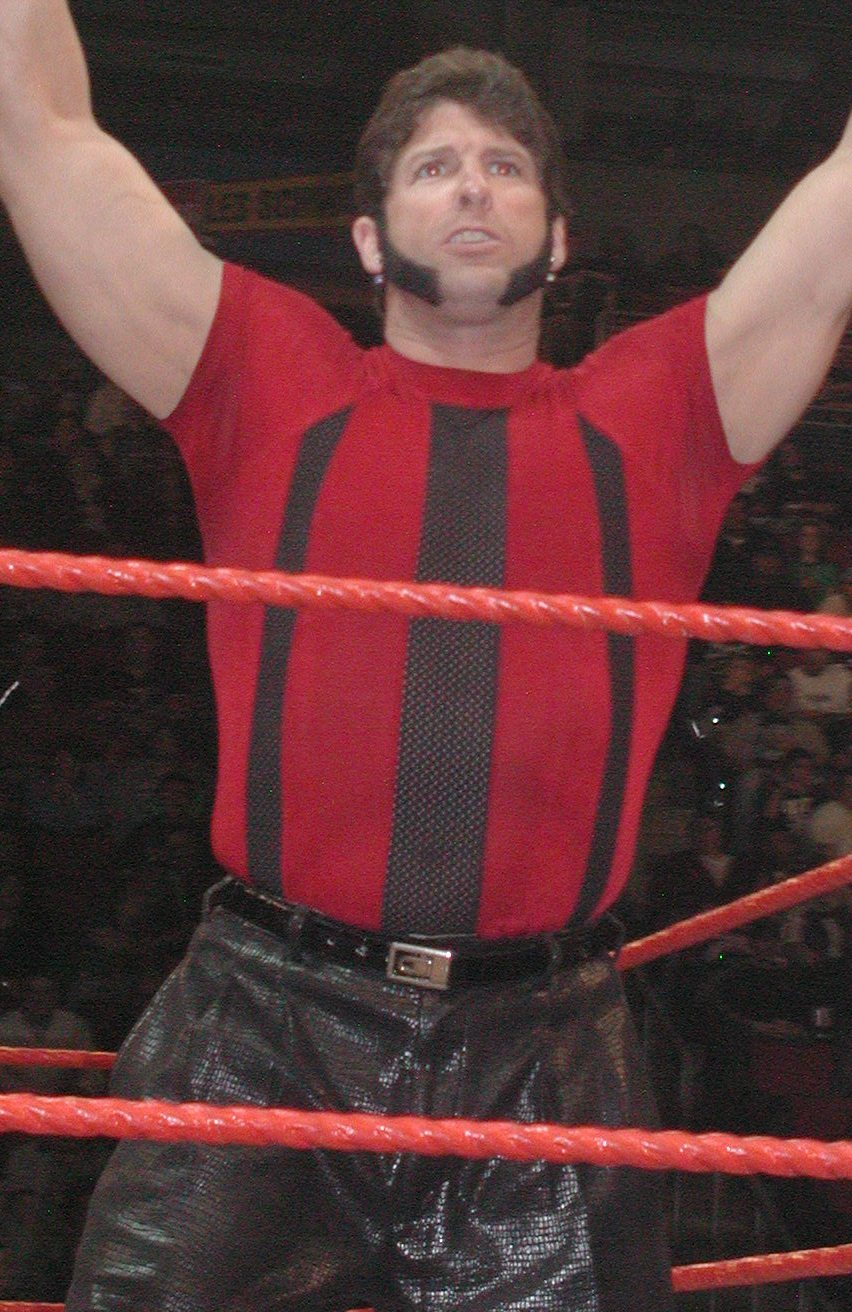 Rico Constantino on WWE Raw on March 312003 at the KeyArena in Seattle, WA.